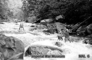 Local men, employed as armed trackers, scouts, guides and boatmen, take a raft through some rapids on a river in the Temenggor area of northern Malaya.